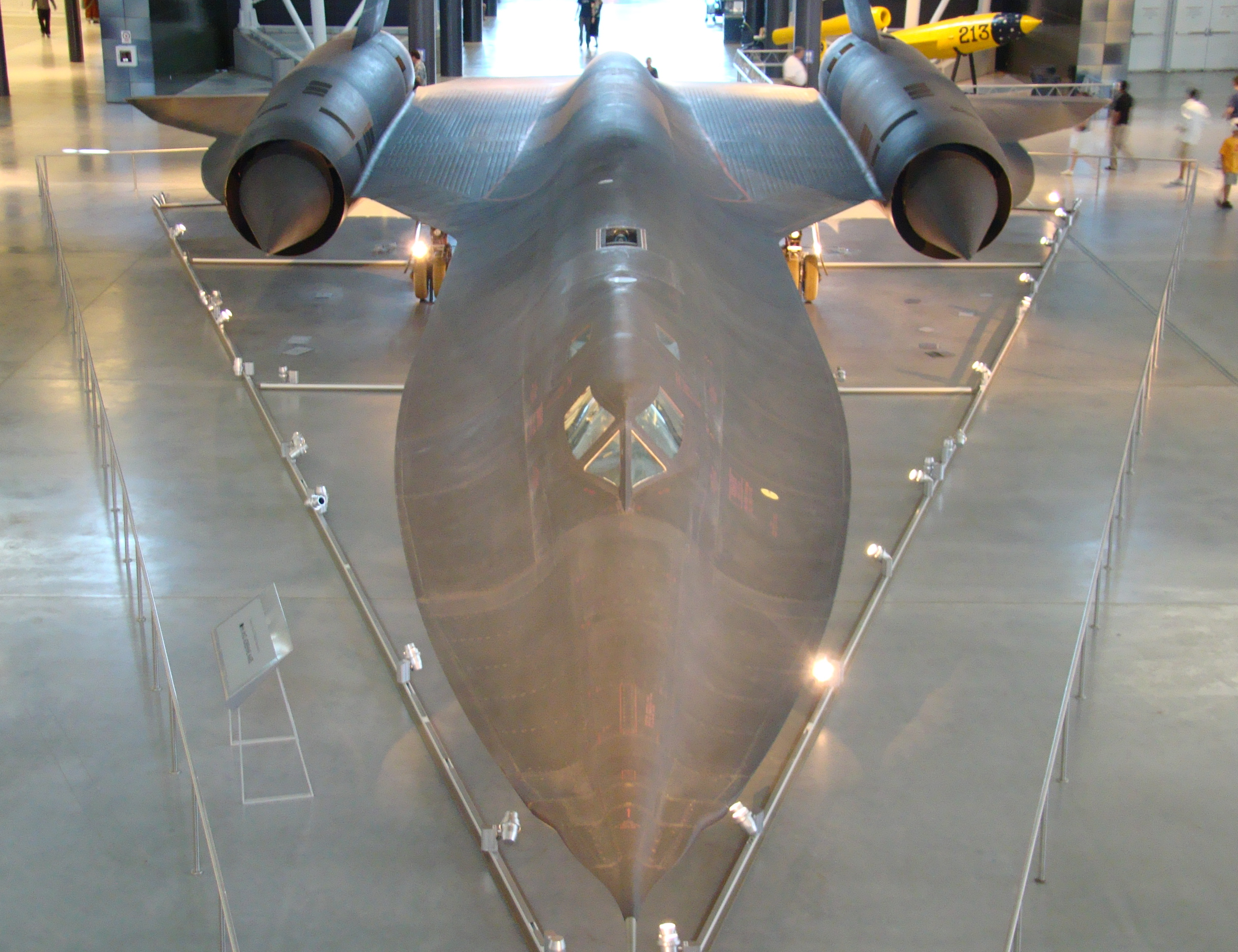 The SR 71 Blackbird at the Udvar Hazy Center in Chantilly, VA